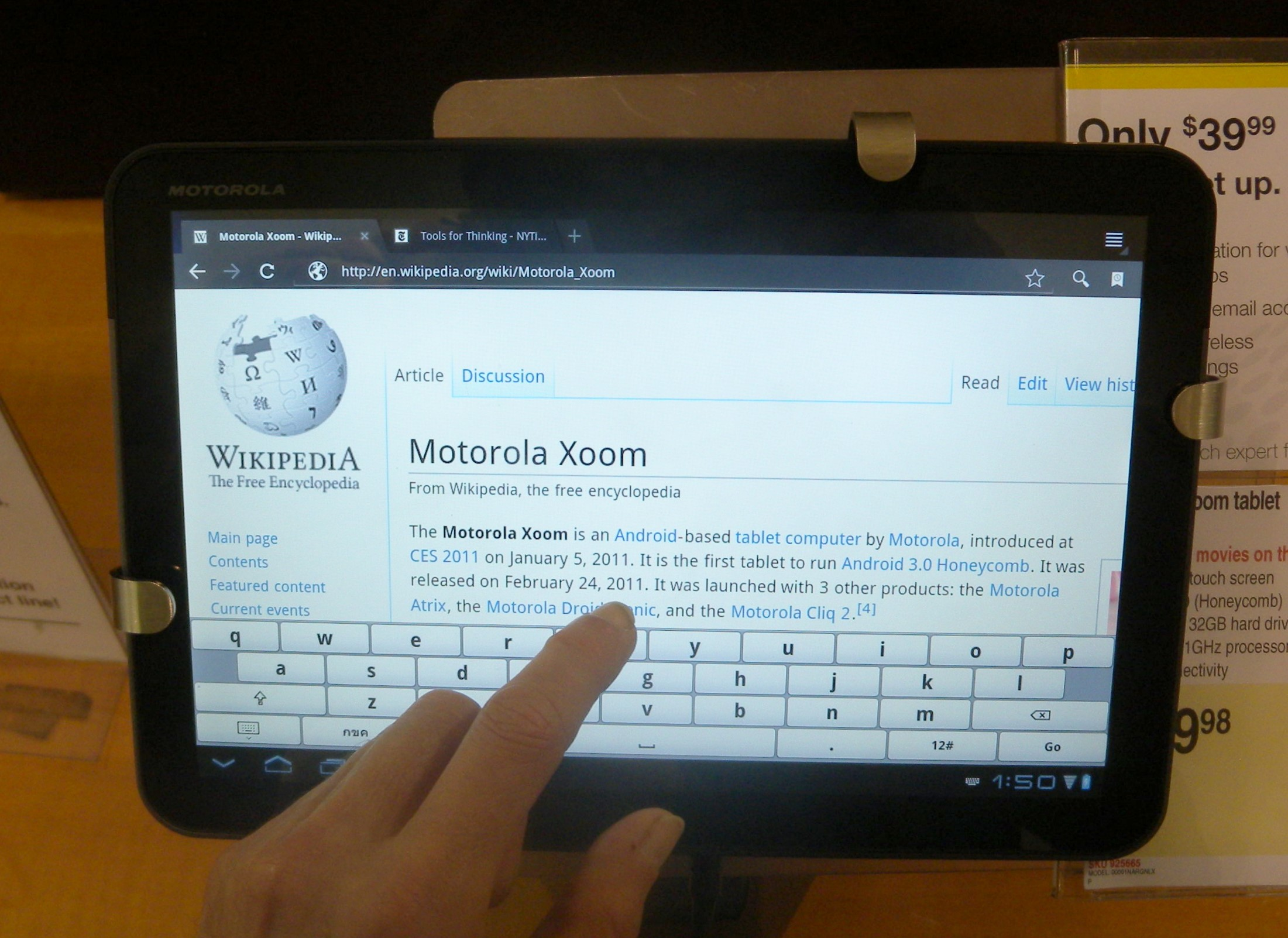 Motorola Xoom